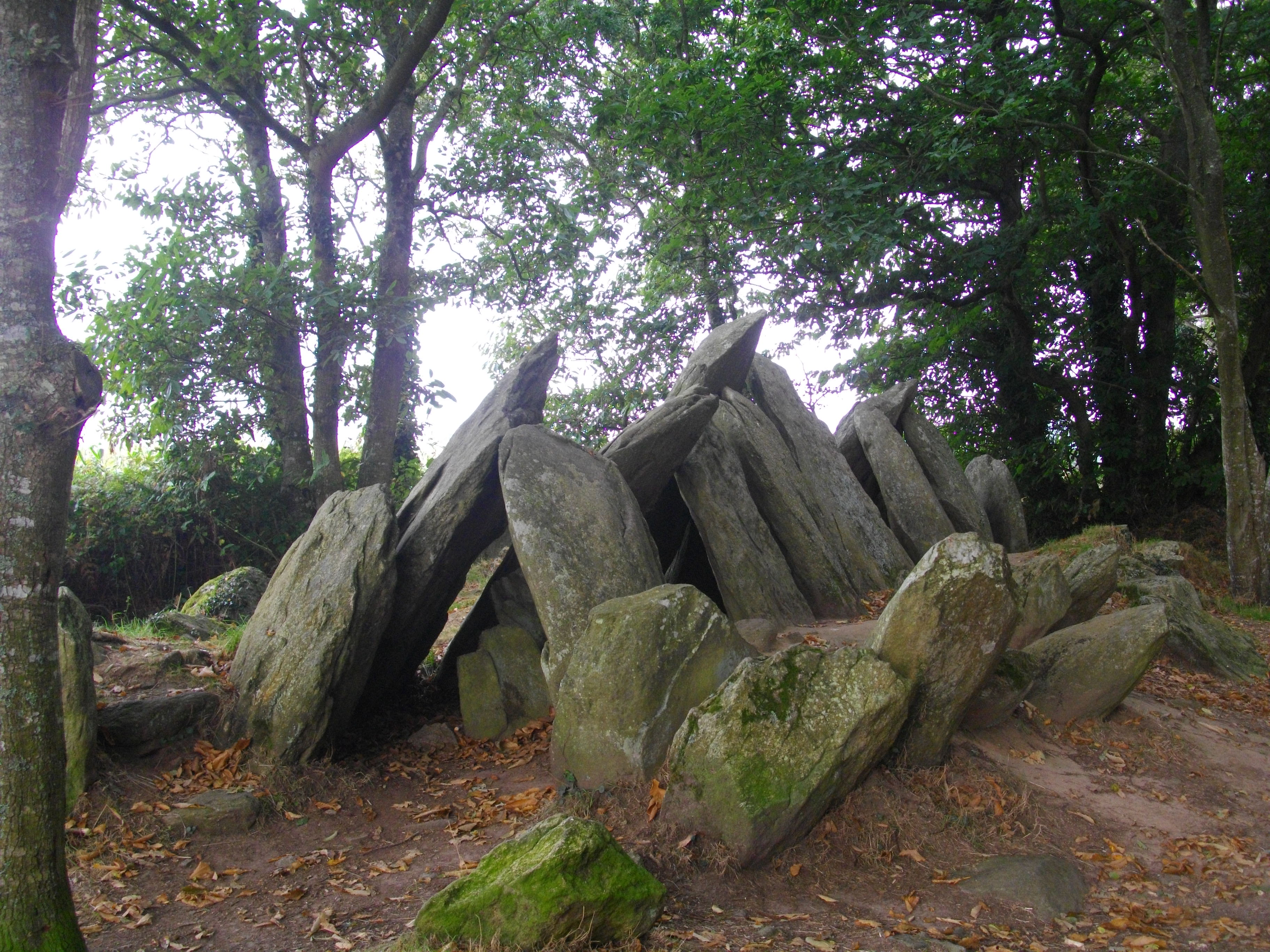 L'allée couverte Ty ar c'horriged à Poullan-sur-mer (finistère)